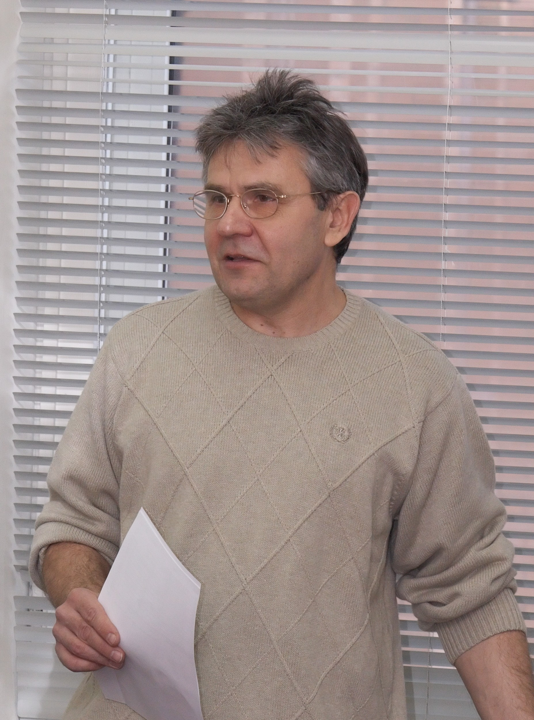 Alexander Sergeev, Russian physicist, member of RAS